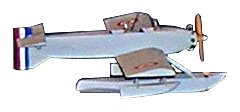 Surcouf_submarine_model.jpg: Rémi Kaupp derivative work: Luigi Chiesa